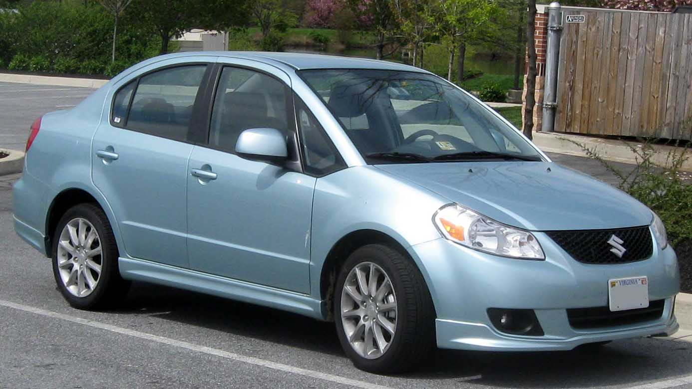 2008-2009 Suzuki SX4 photographed in Columbia, Maryland, USA.